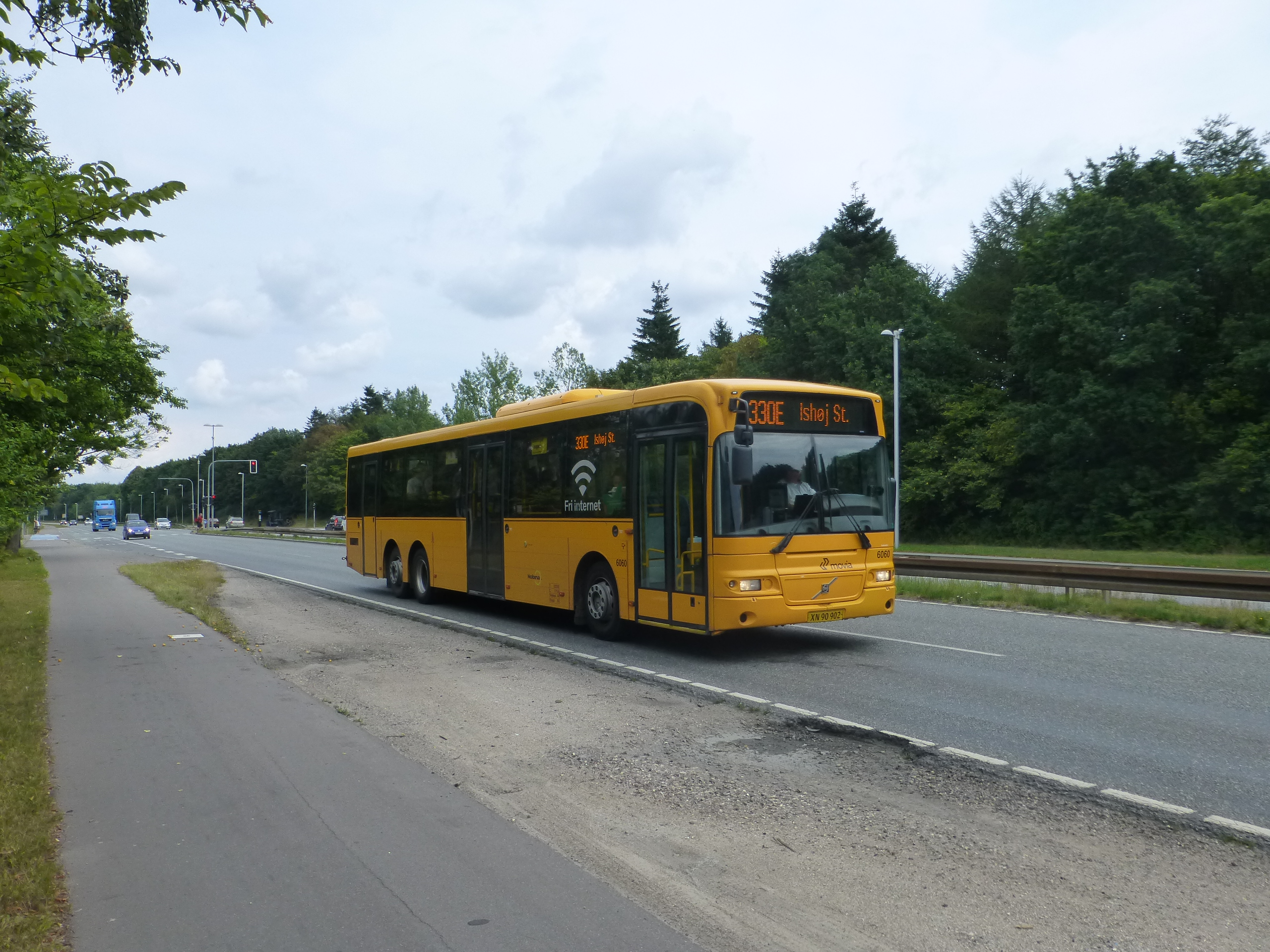 Movia bus line 330E on Nordre Ringvej, a part of Ring 3 around Copenhagen, at Ejby Industrivej.